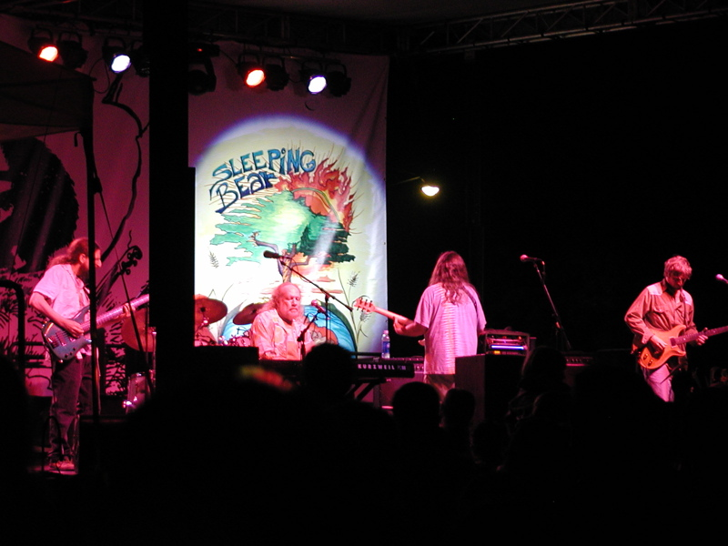 Musician Vince Welnick performing live.